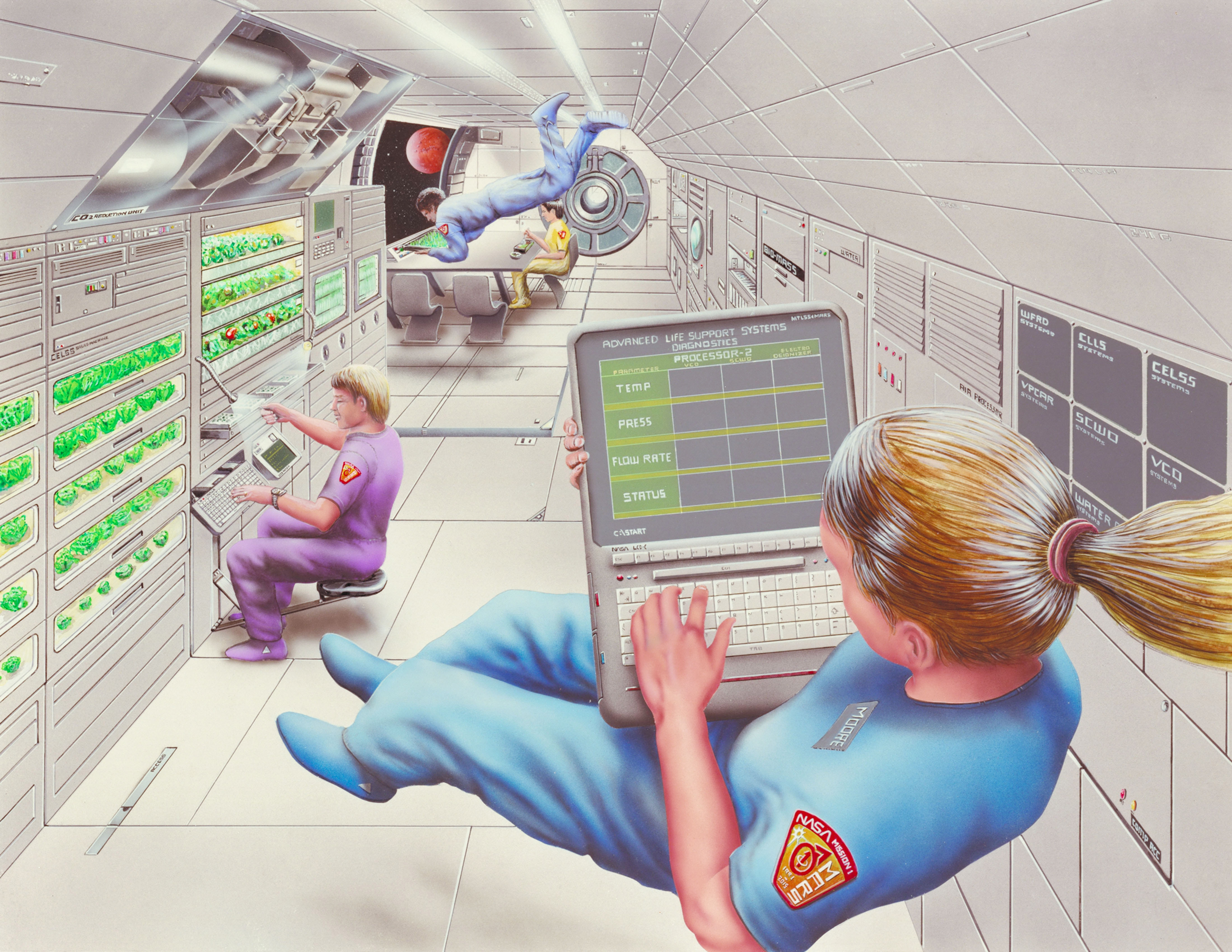 Color drawing of weightless astronauts. Artist's concept of astronauts working in space.